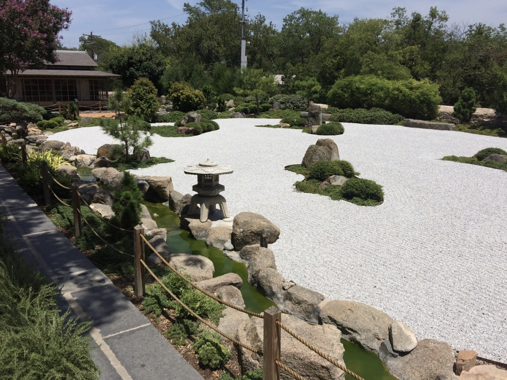 This is the Japanese Garden Of Peace at the National Museum of the Pacific War in Fredricksburg, Texas. Photo taken in June 2018.